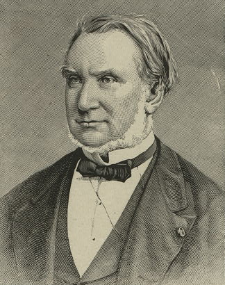 Dupuy de Lôme, marine engineer who built a dirigible for the French government in 1872, head-and-shoulders portrait